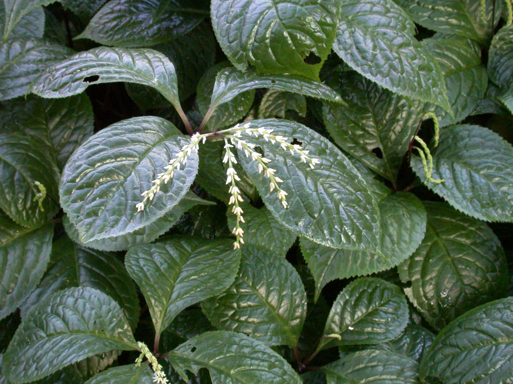 Specimen labelled: "Chloranthus oldhami. Chloranthaceae."